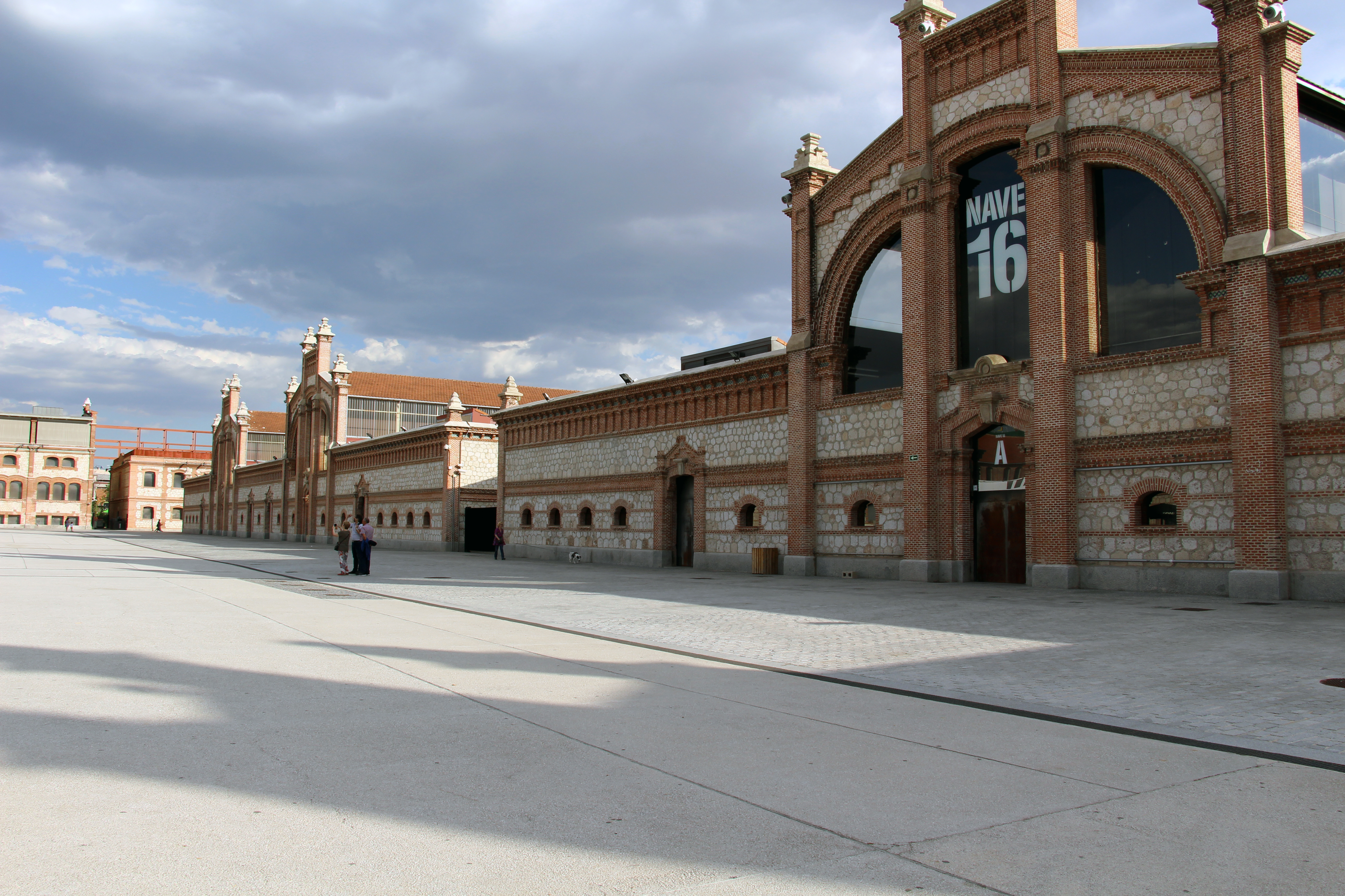 Chopera | Paseo de la Chopera Matadero Madrid is a former slaughterhouse which has been converted to an arts centre. It was then called El Matadero y Mercado Municipal de Ganados. The project of the slaughterhouse and livestock market was structured around a complex of pavilions characterised by functionality, constructive rationality and conceptual simplicity. There is however a historicist element to the architecture, which incorporates Neo-Mudéjar features, such as tiles with abstract designs. Arch. Luis Bellido y González 1910-25 Arch. Francisco Javier Ferrero Llusiá 1932-33 The buildings were in use as a slaughterhouse until 1996.